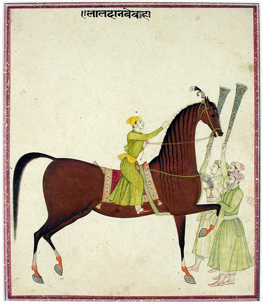 The stallion Laldhan Behada. Kishangarh, ca. 1780, San Diego Museum of Art